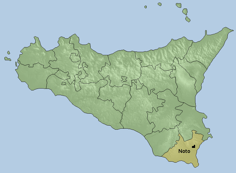 Map of the diocese of Noto (^^: Cathedral of a metropolitan diocese, –^: Cathedral of a suffragan diocese, ^–: Co-cathedral)